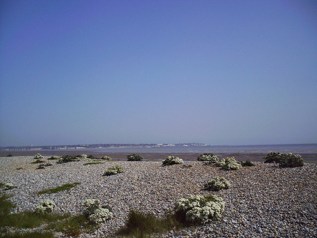 Shingle End